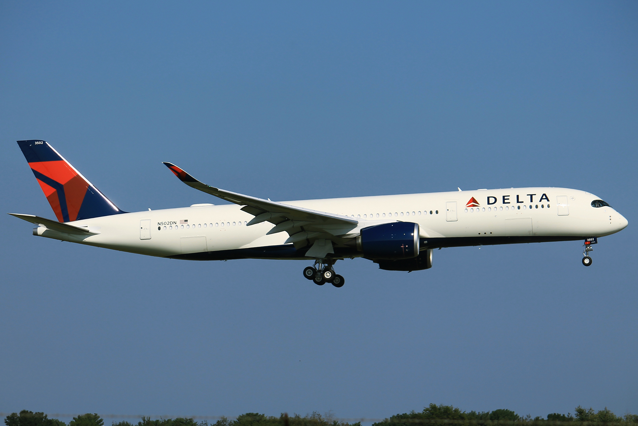 Delta was practicing their touch-and-go routines at Huntsville International Airport (Flight 9971) this afternoon on their new Airbus A350s. Wide-body passenger aircraft are a rare sight at HSV, so there aren't many opportunities to spot anything larger than an occasional 737 or A319.